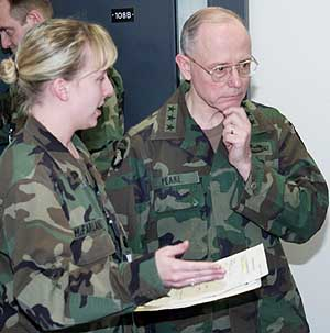 Lt. Gen. James B. Peake is briefed by Spc. April McFarland of the 7228th Medical Support Unit of Columbia, Mo., about the Soldier Readiness Center immunization program. Peake visited the SRC during his tour of Fort McCoy.